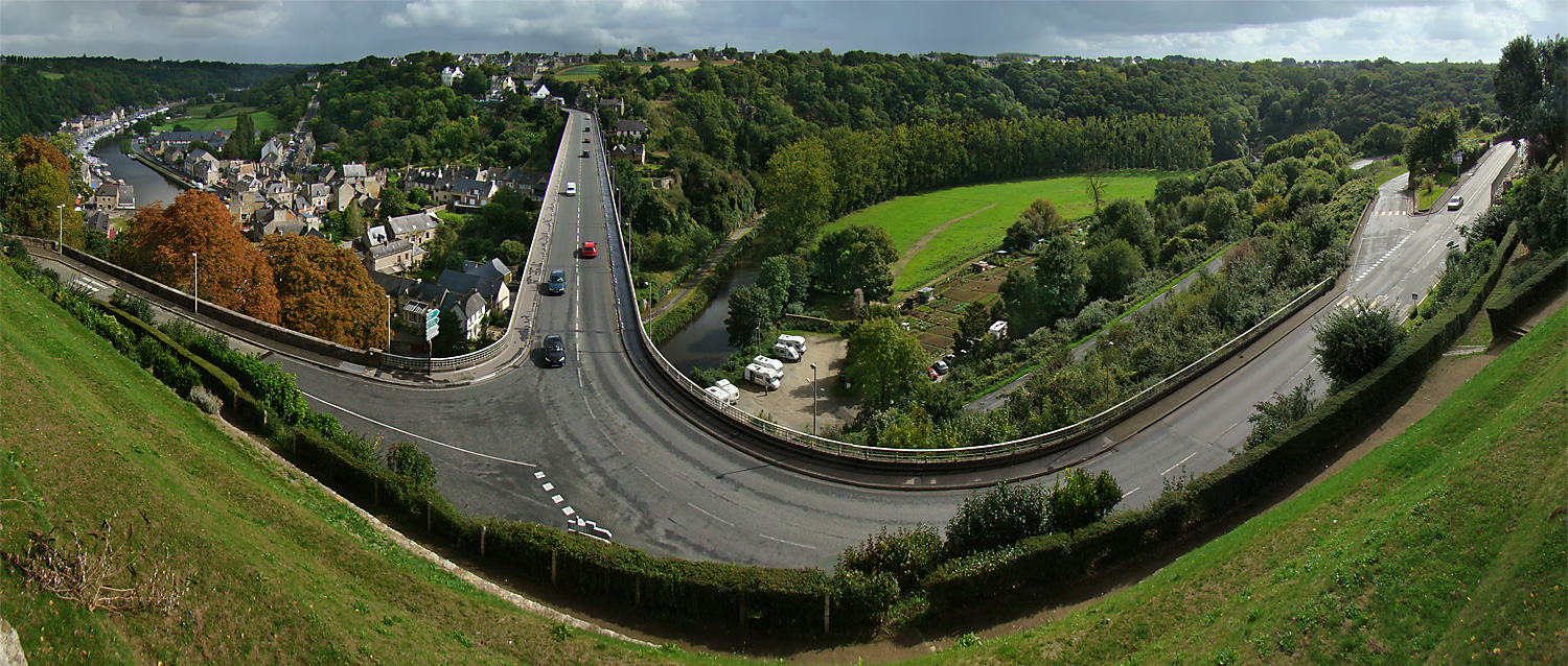 Dinan, Côtes-d’Armor, Bretagne, France. Panorama toward the east, from the belvedere of the Jardin Anglais (English garden). At the center, the Viaduct of Dinan crossing the Rance River; on the left, the harbour and the lower town.